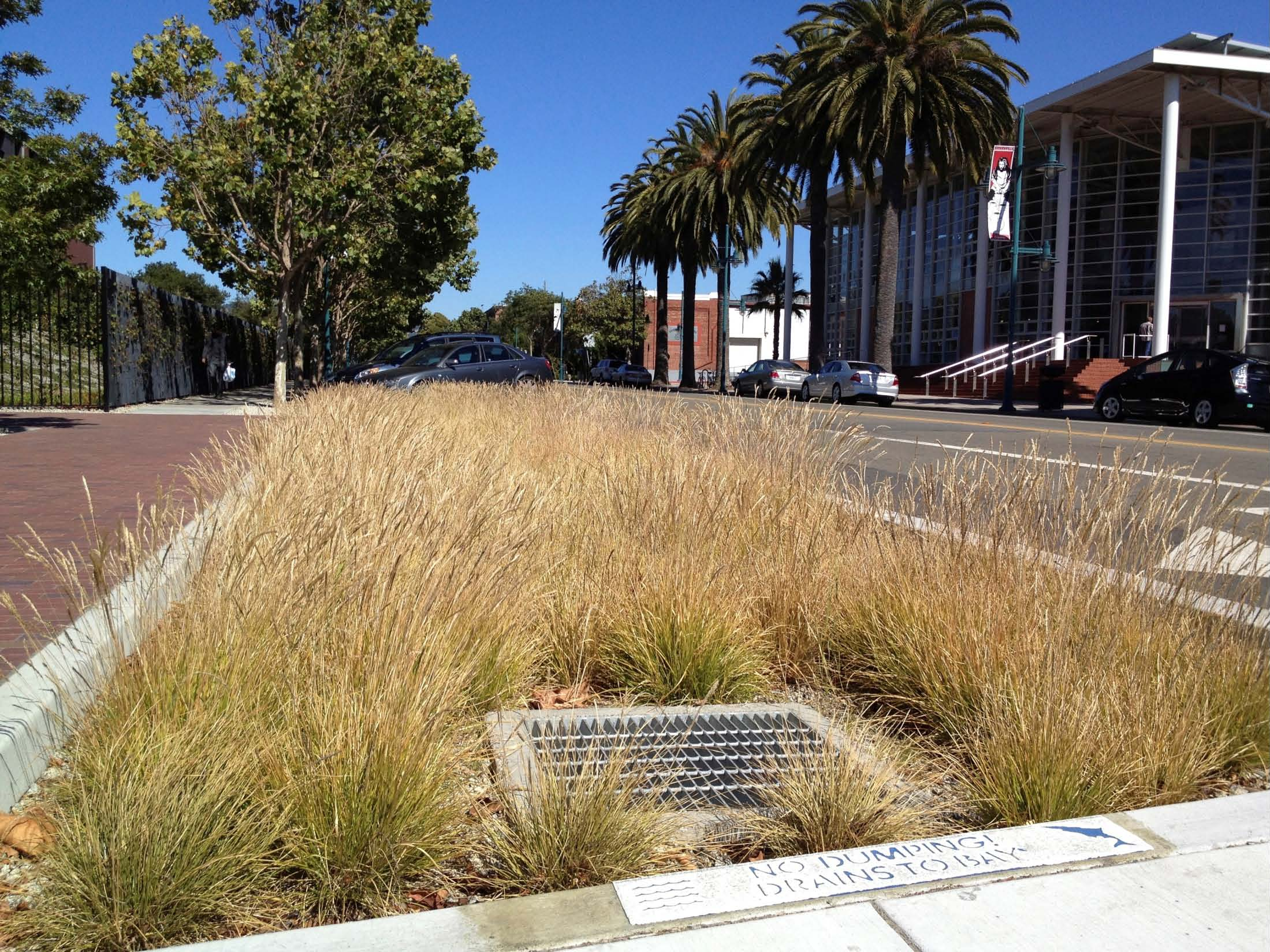 This bioretention area is in Emeryville, California at the intersection of Park and Hollis streets.